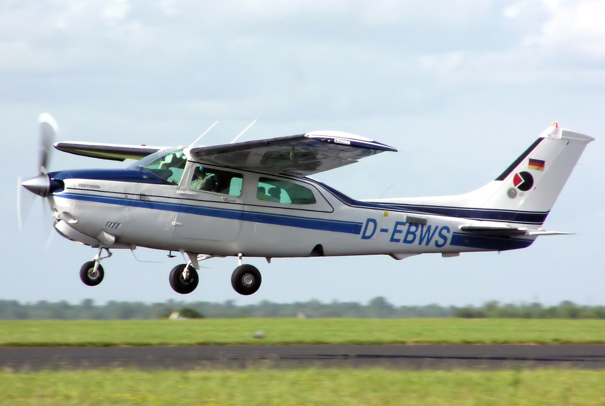 Cessna 210 Centurion (German registration D-EBWS), year of build unknown) at Kemble Airfield, Gloucestershire, England. Photographed by Adrian Pingstone in July 2005 and released to the public domain.